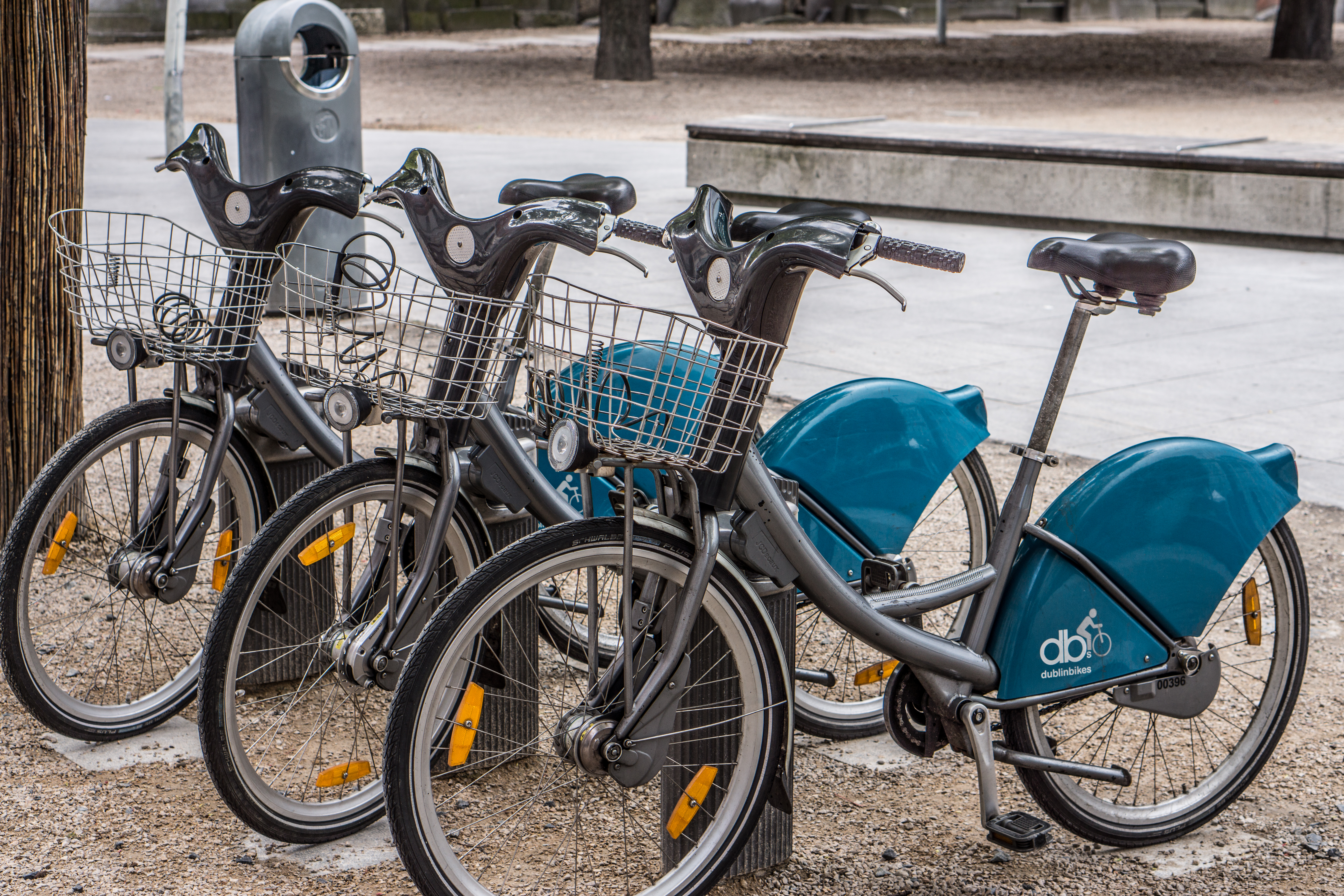 DublinBike Station - Wolfe Tone Square (Dublin)